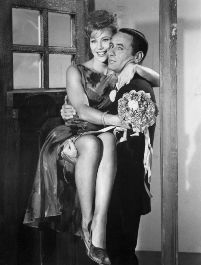 Publicity photo of Abby Dalton (Ellie Barnes) and Joey Bishop (Joey Barnes) from the television program The Joey Bishop Show. The show premiered 15 September 1962 with the couple having just been married. Dalton had been playing Martha Hale on the CBS television program Hennessey, and that show had its finale on 17 September 1962. In the finale, Dalton married Chick Hennessey, making Dalton the bride of two different television characters on two different networks in the same week.